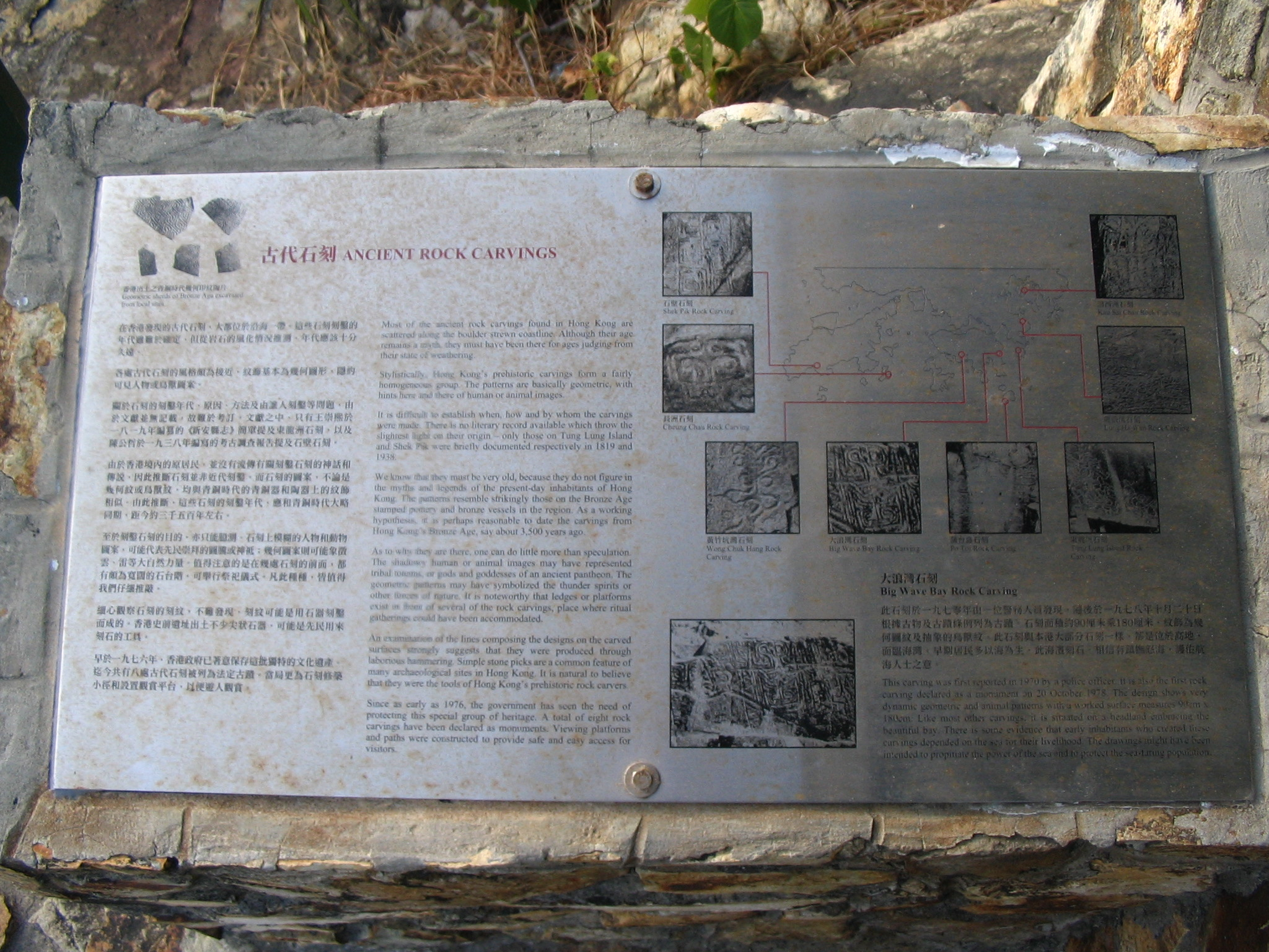 Photo of Big Wave Bay Rock Carving